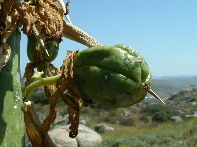 Fruit of Hesperoyucca whipplei - Lakeview Mountains, California, elevation 1800 ft., 10 May 2003. Photo taken with Fujifilm FinePix S2650. Photographer: Takwish